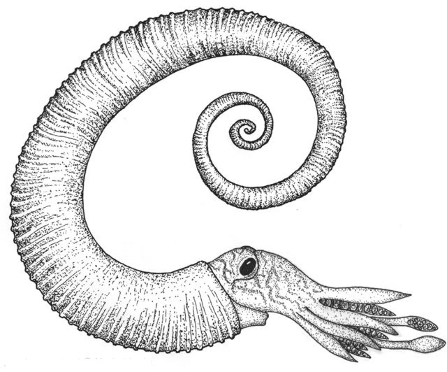 A reconstruction of Hamites sp. heteromorph ammonite (Mollusca: Cephalopoda: Ammonoidea: Ancyloceratina) from my PhD thesis.